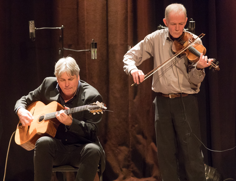 Jon Larsen and Finn Hauge performs with Hot Club de Norvège and Kourosh Kanani at Cosmopolite. The concert was part of Djangofestivalen 2017 and took place on 21. January 2017 in Oslo. Lineup:Jon Larsen (guitar)Svein Aarbostad (double bass)Finn Hauge (violin)Stian Vågen Nilsen (guitar)Kourosh Kanani (guitar)Unidentified (vocal)